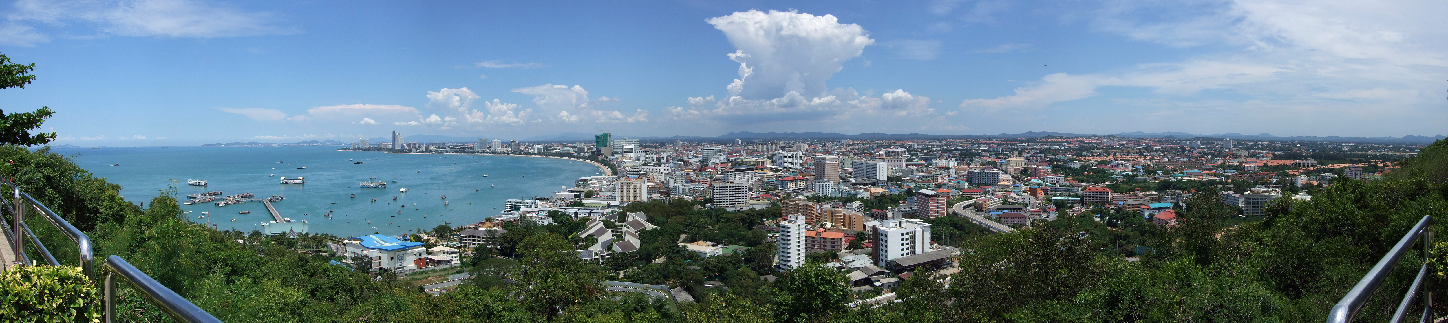 A wide panoramic view of Pattaya from the viewpoint on Buddha Hill.